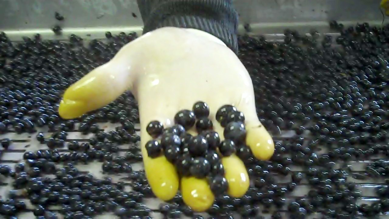 Grape sorting at the Margaux estate of the French wine producer Chateau Kirwan in Bordeaux.